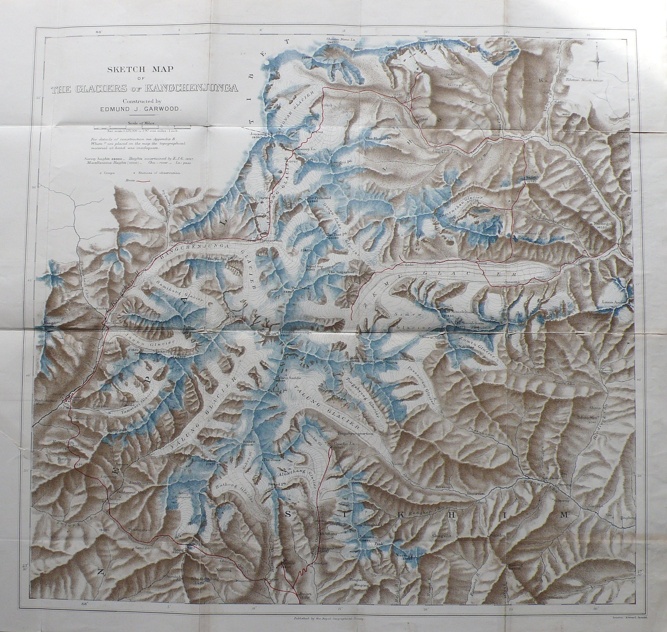 Kangchenjunga Map by Garwood